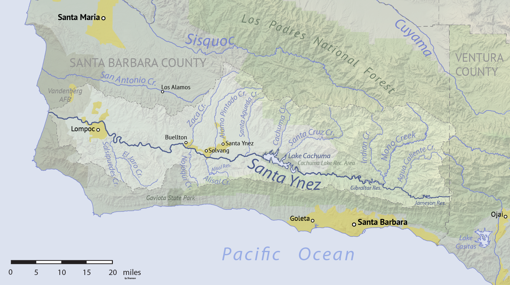 Map of the Santa Ynez River drainage basin in Santa Barbara and Ventura Counties, California. Made using USGS National Map data.